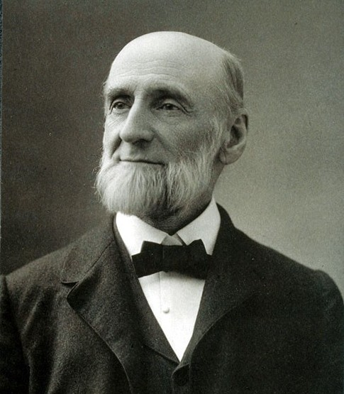 Portrait of Gamaliel Bradford. Album Title Title: Photographs. NEW ENGLAND WOMEN'S CLUB 1868-1908 Repository: Schlesinger Library on the History of Women in America, Radcliffe Institute MC178-19vf-72